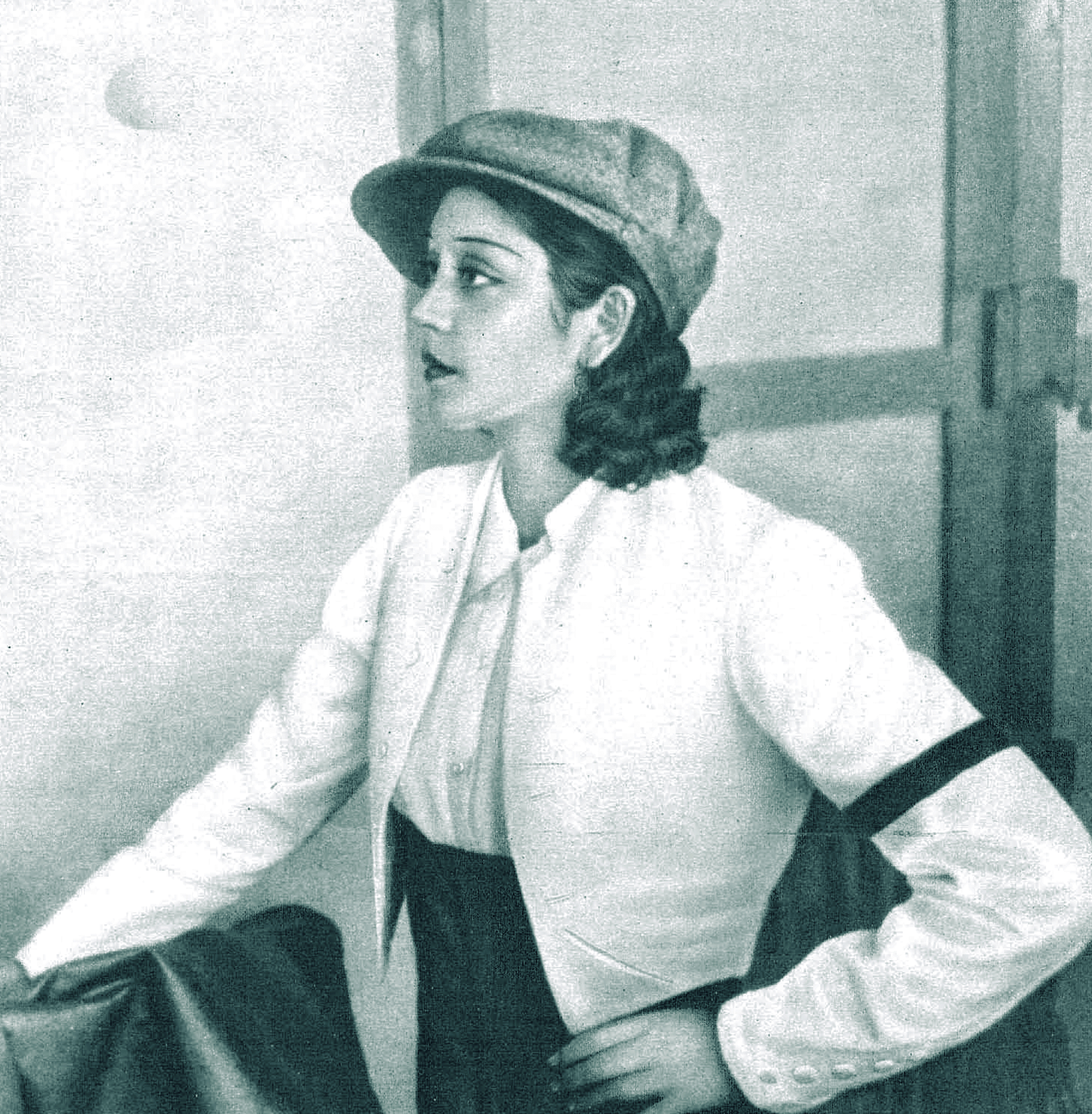 Spanish bullfighter María Luisa Jiménez (1911-1973), widow of Miguel Morilla "El Atarfeño"